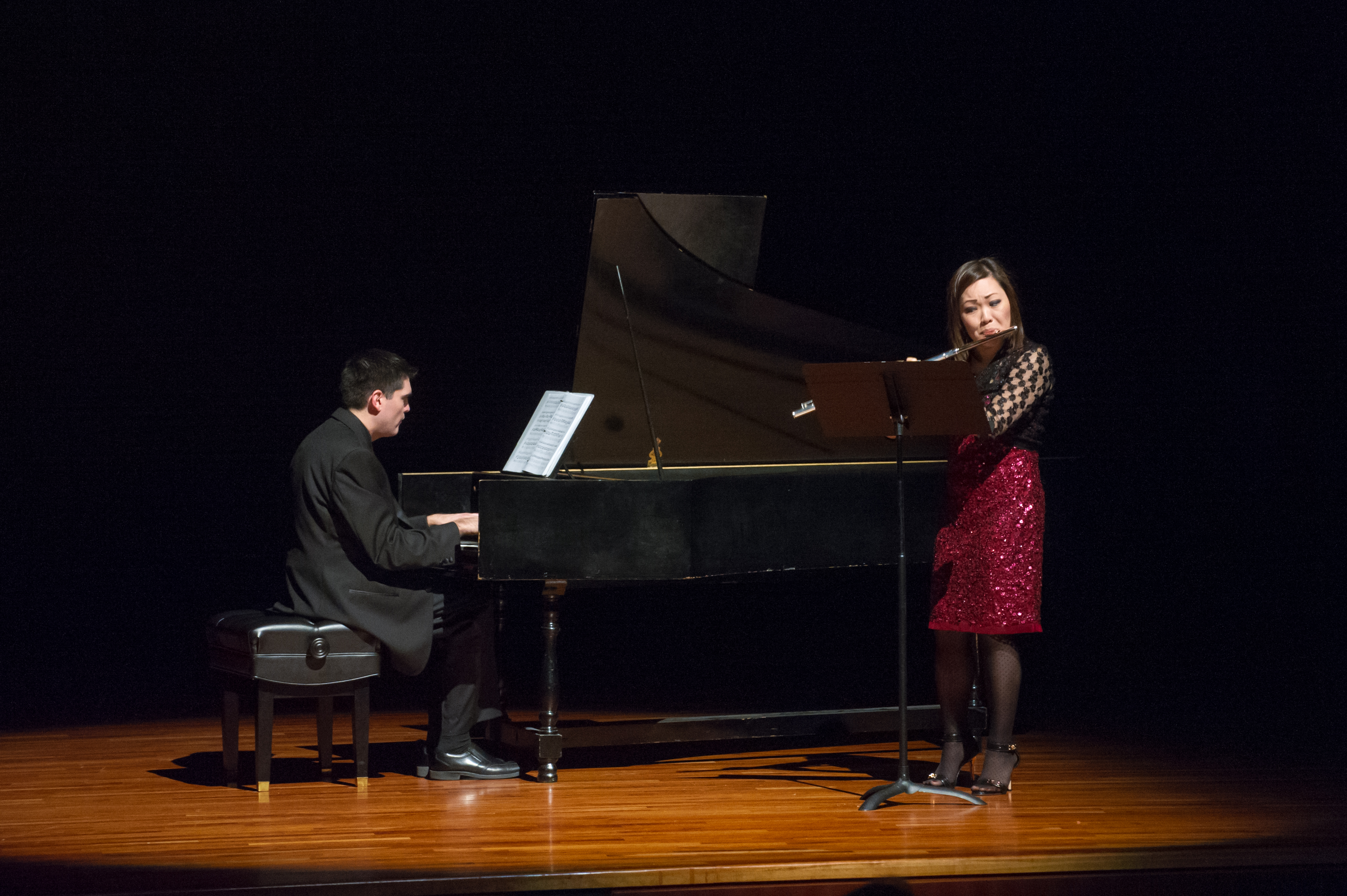 Julee Walker flute recital at Texas A&M University–Commerce